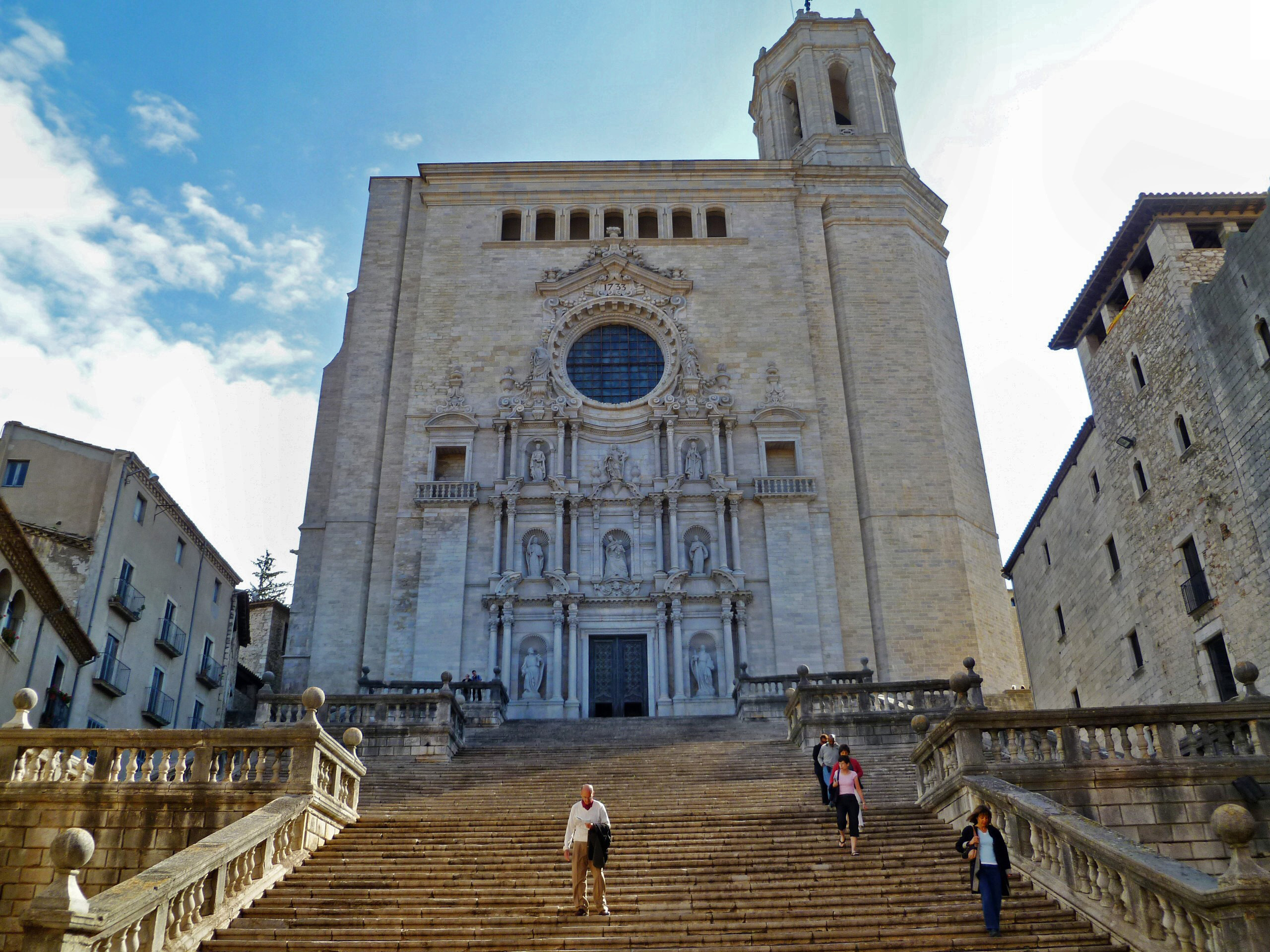 Steps leading to the Cathedral of Girona, Spain